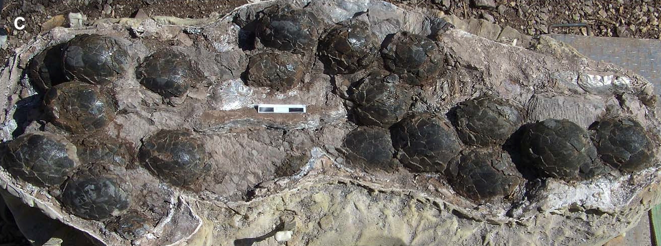 Underside of a clutch of Megaloolithus siruguei eggs at Pinyes locality, Tremp Formation Page 5 of PLoS One article: Vila, Bernat (2010). "3-D Modelling of Megaloolithid Clutches: Insights about Nest Construction and Dinosaur Behaviour". PLoS One 5: 1–13. Retrieved on 2018-05-24.